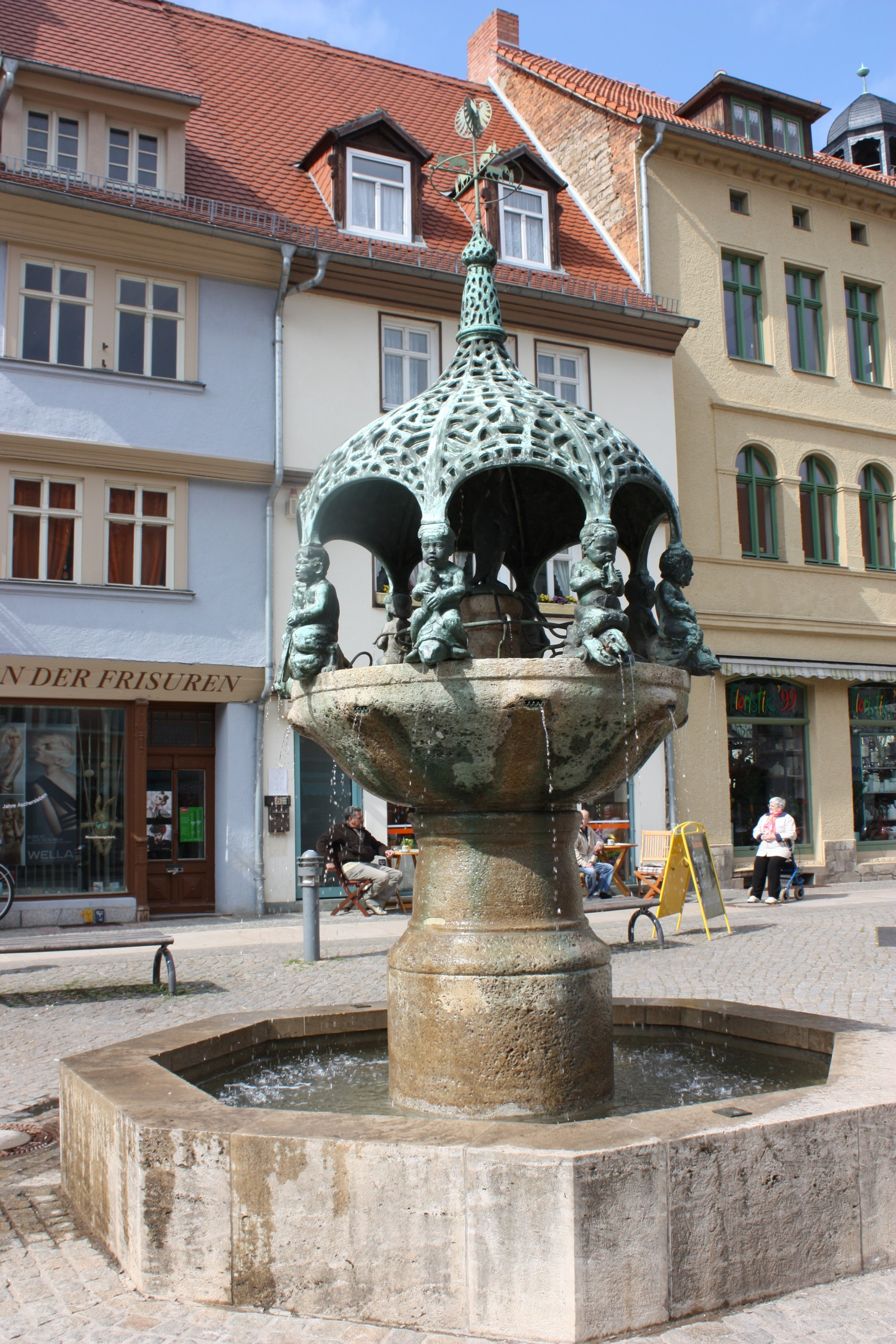 Aschersleben, the Henne fountain (Worba, 1906)